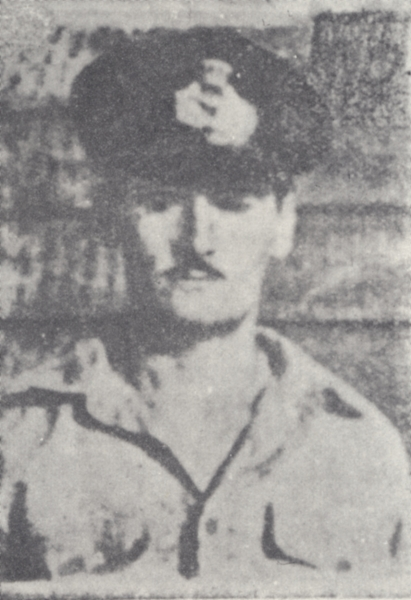 Greek pilot Elefterios Athanasakis (1921-1943). During the air raid of the of the 336th Greek Squadron on Crete on July 23, 1943, he deliberately continue to fly to full fuel consumption, made emergency landing, and was killed on the ground during a shootout with German soldiers.